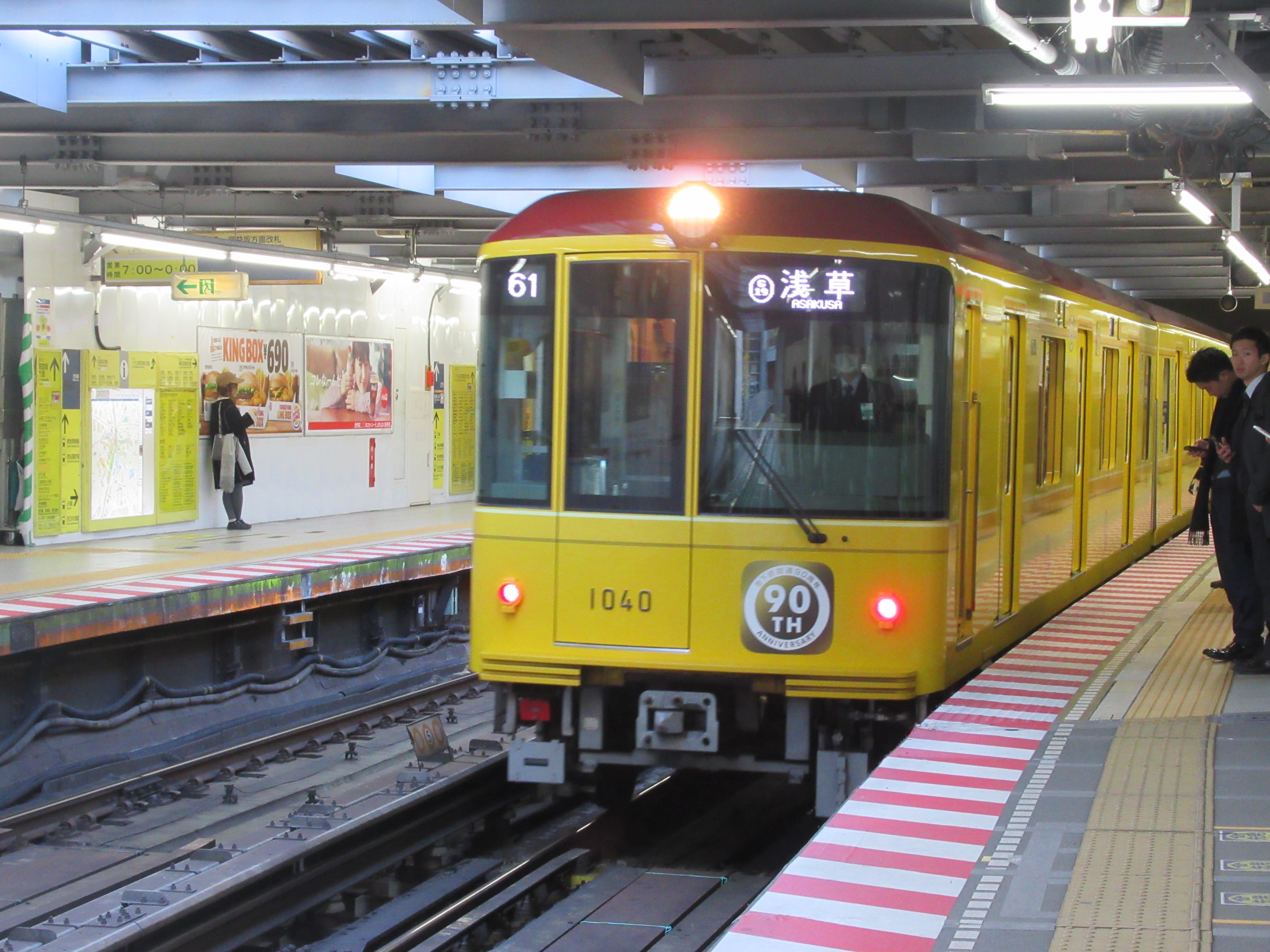 Shibuya Station in Tokyo